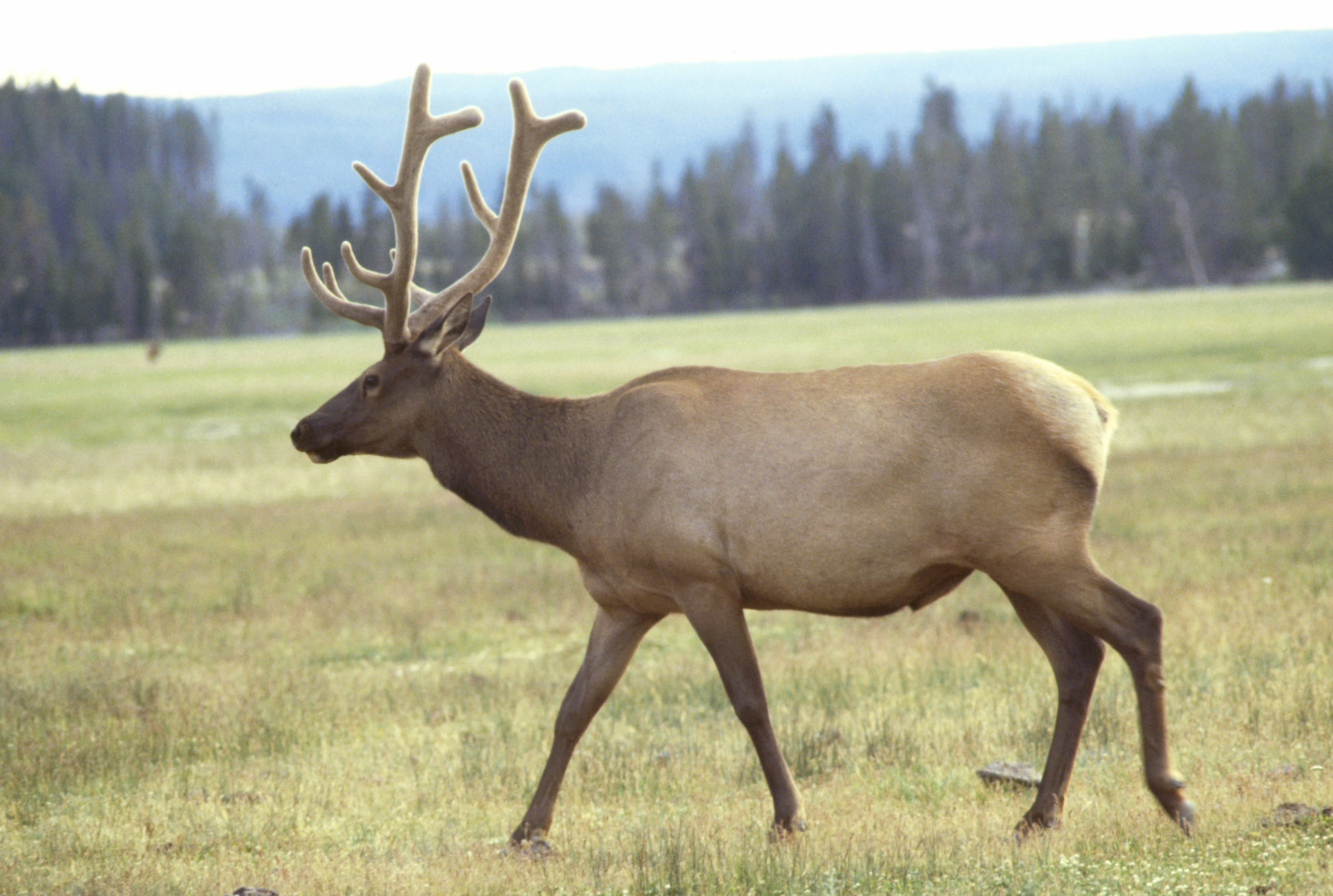 wapiti or elk in meadow